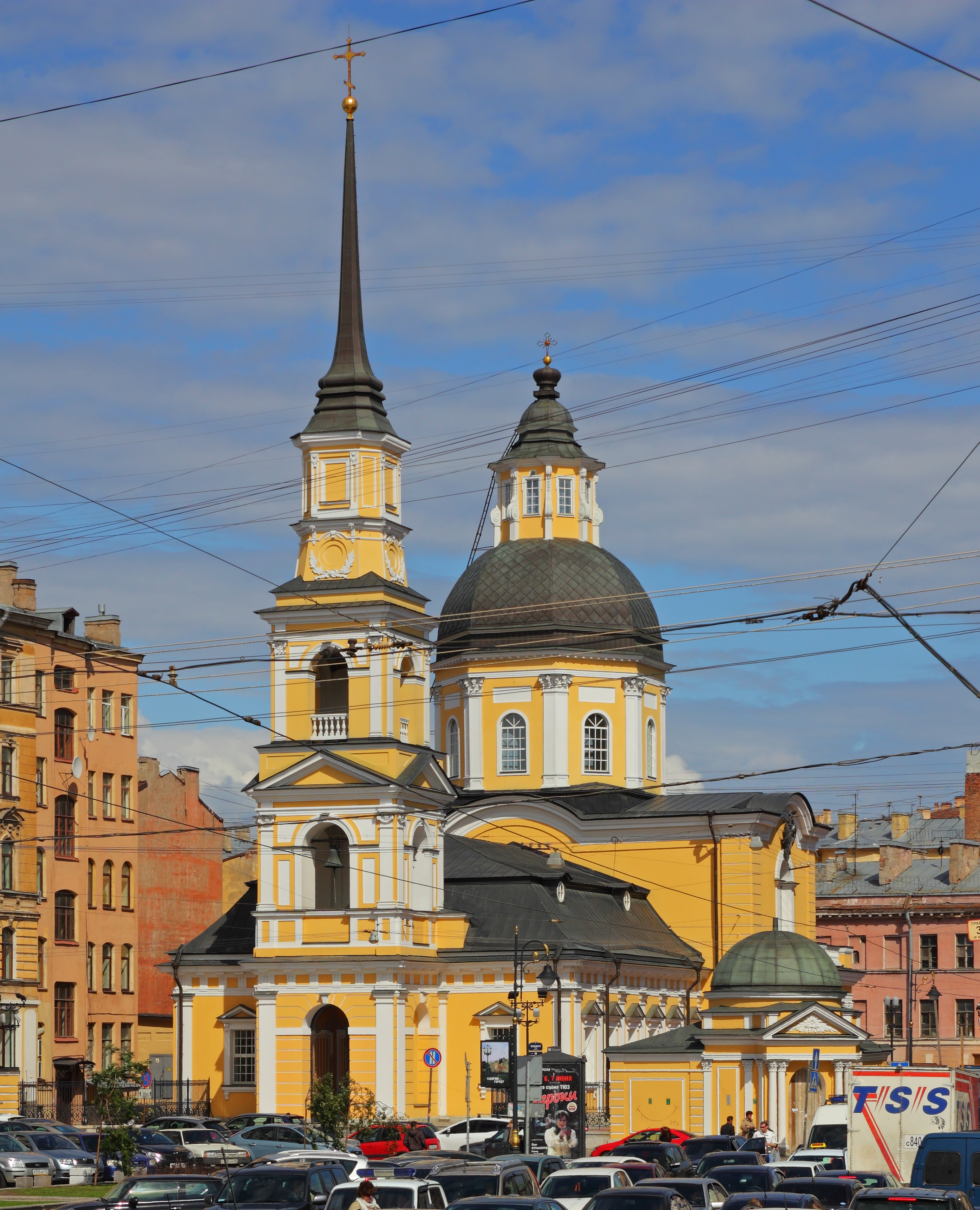 Saint Petersburg, Russia. Church of Sts. Simeon and Anna.